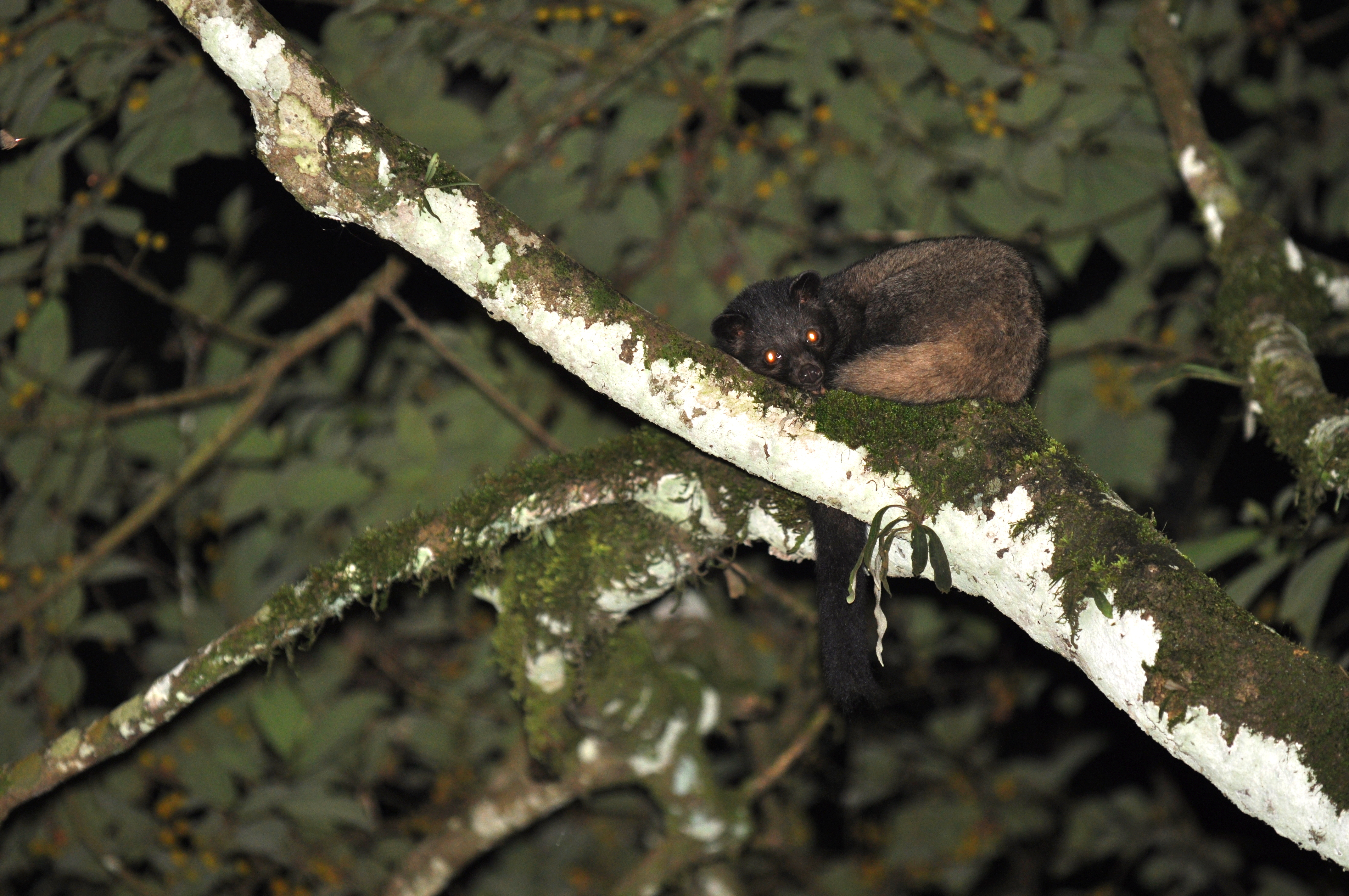 Brown palm civet resting on a branch in a rainforest fragment near Valparai in the Anamalai hills, India.